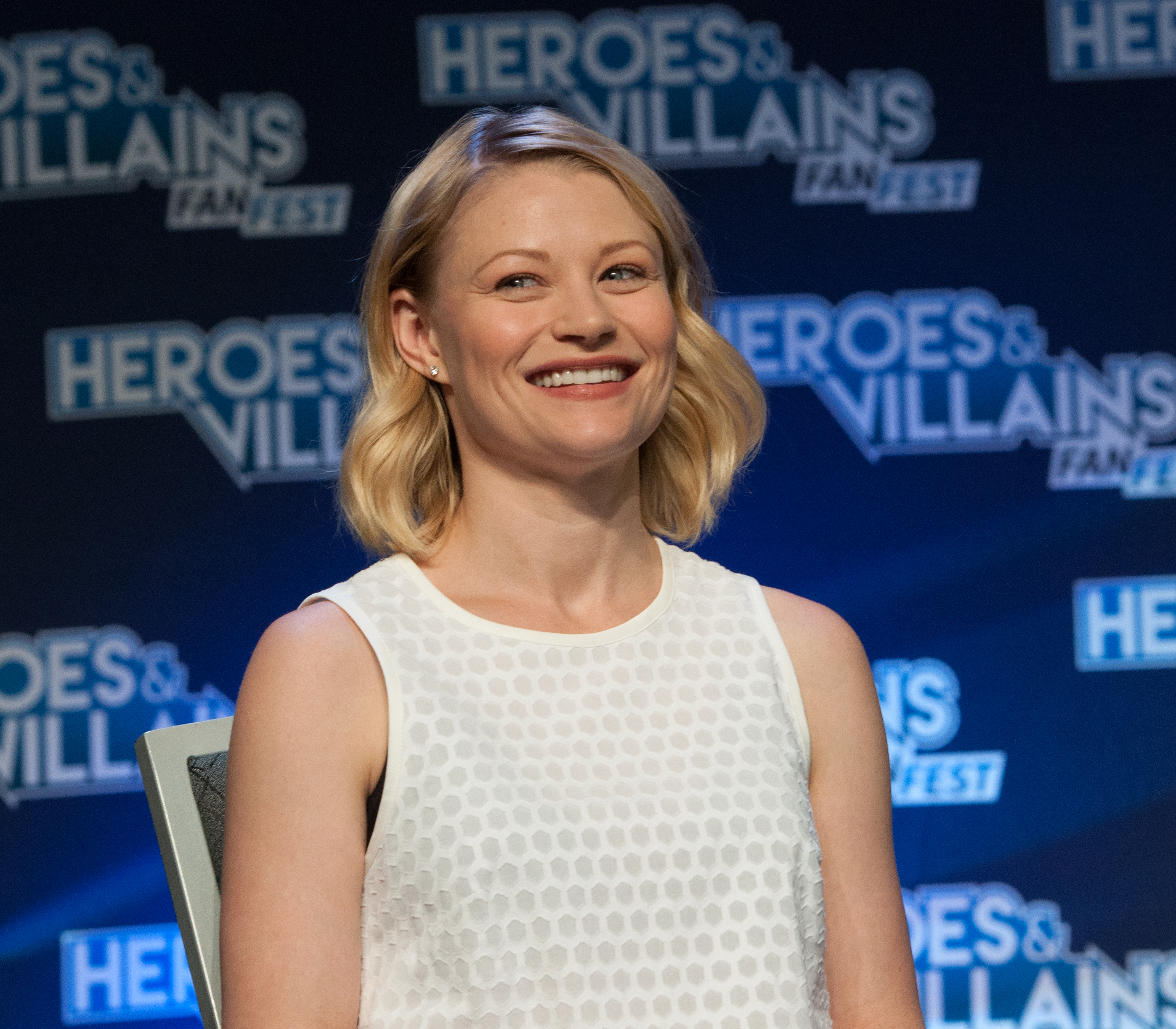 Emilie de Ravin in Heroes & Villains